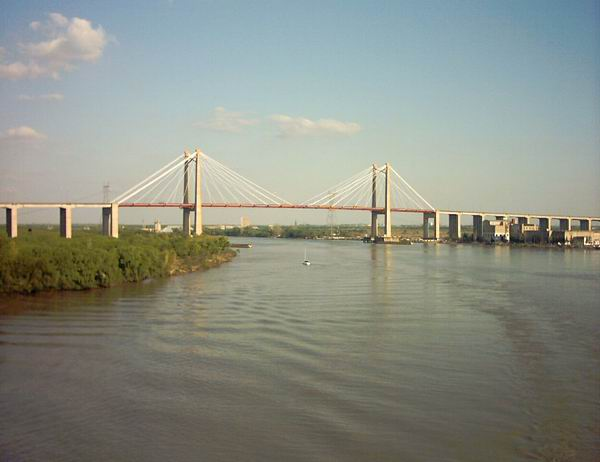 Zarate-Brazo Largo bridges complex. This over Parana de las Palmas next to Zarate city first of two bridges to cross from Buenos Aires to entre Rios (Argentina)